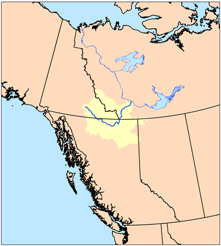 This is a map of the Liard River drainage basin.